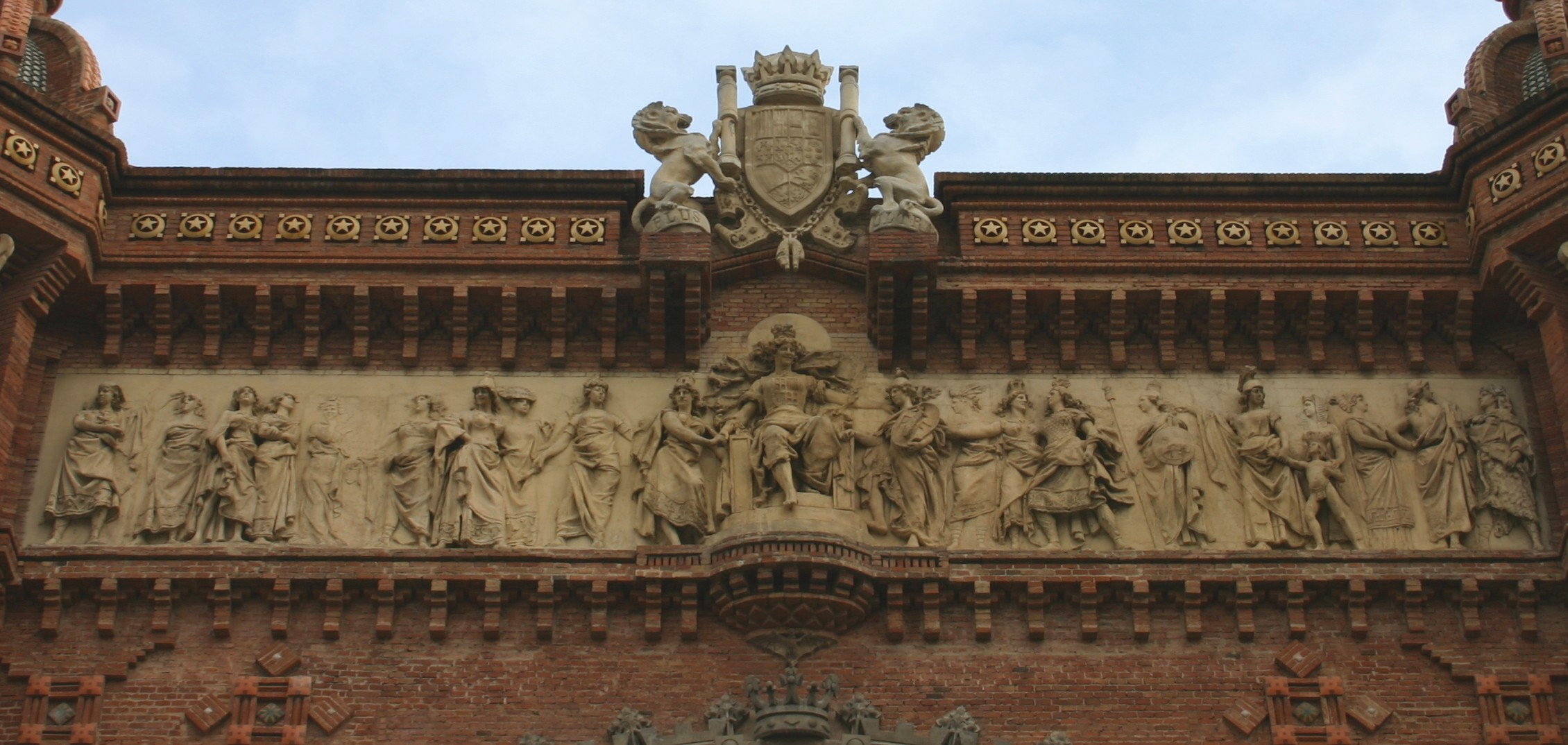 Triumphal Arch relief by Josep Reynés Author: Year of the dragon